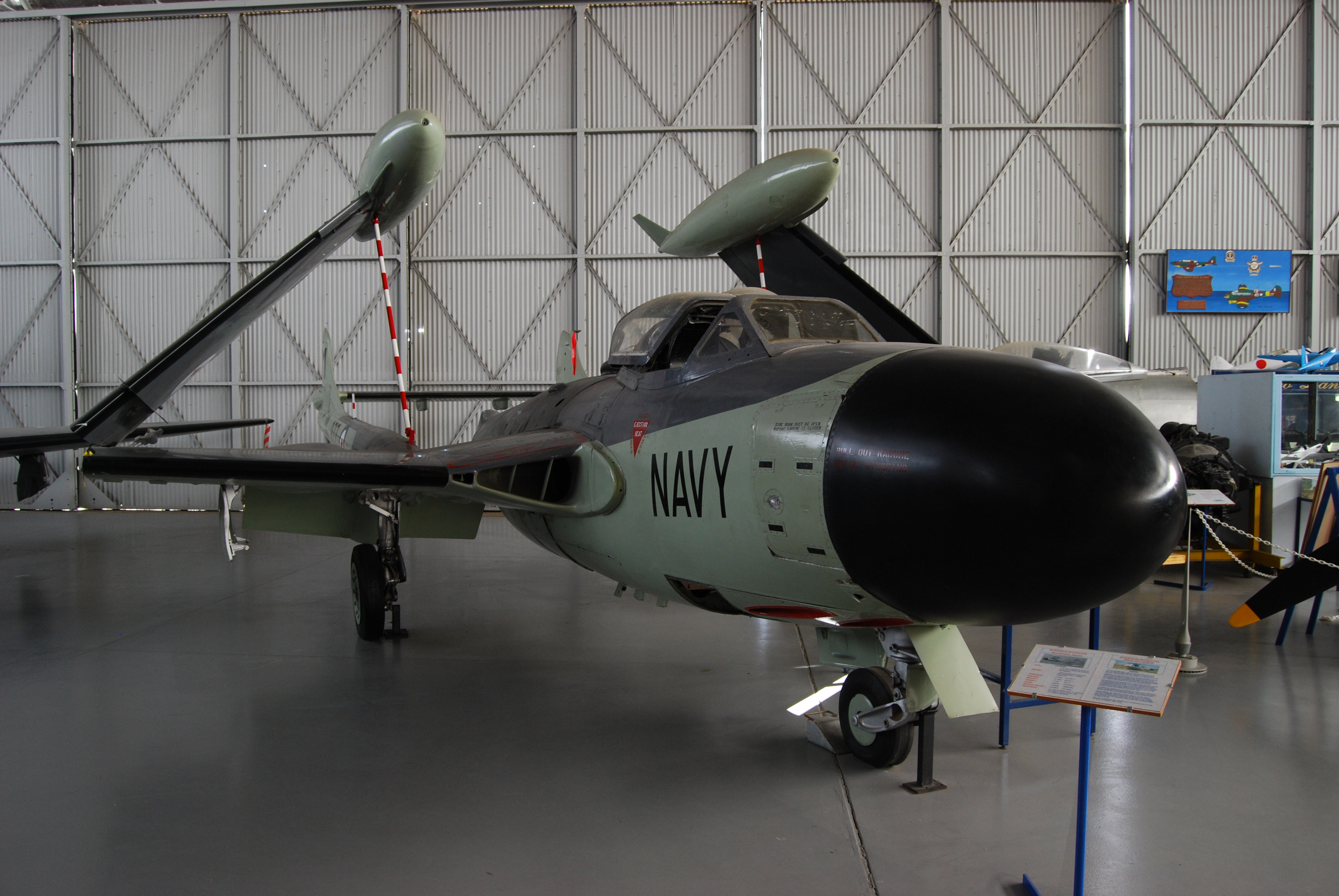 De-Havilland Sea Venom (WZ-931) at the South Australian Aviation Museum, Port Adelaide